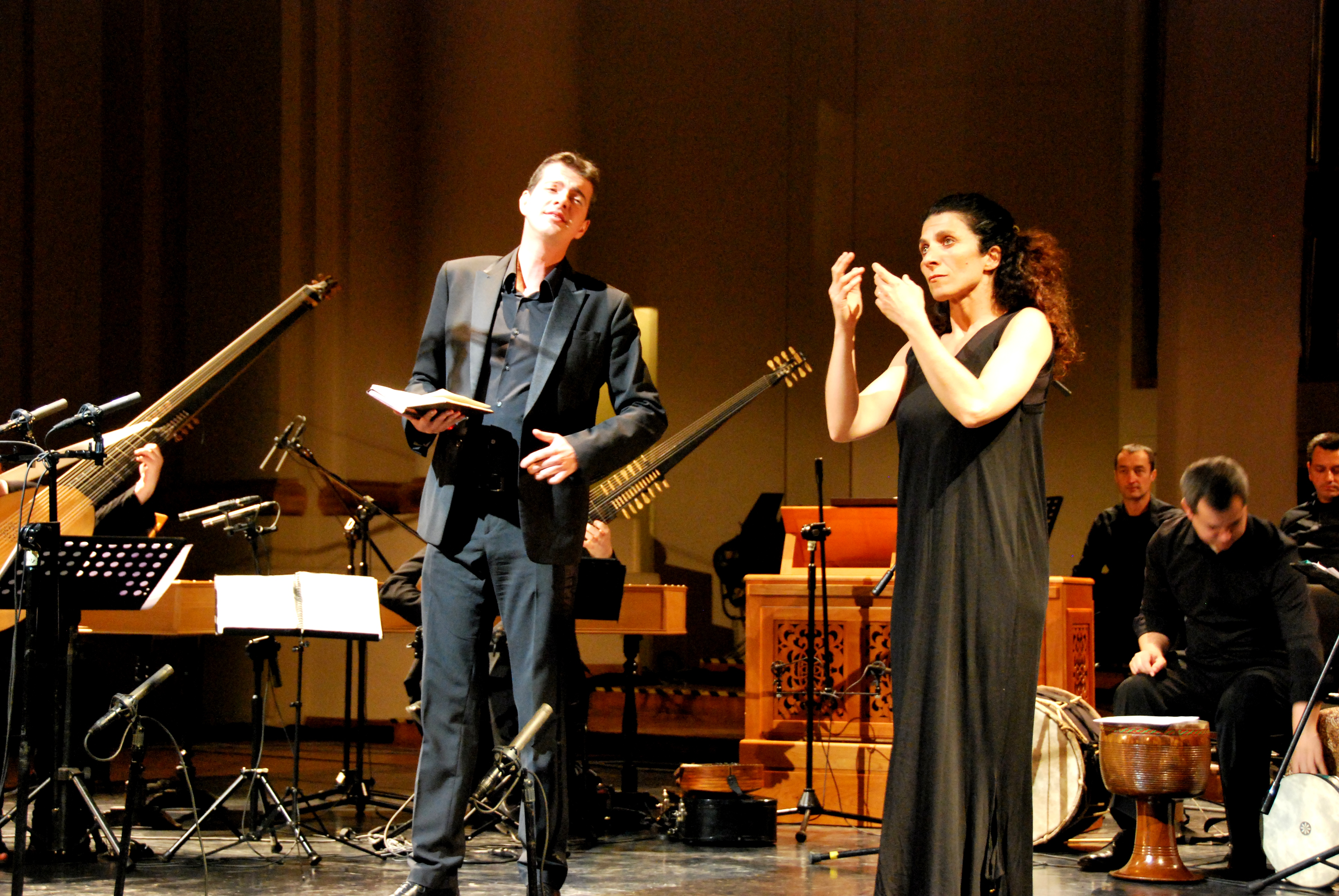 Philippe Jaroussky, Anna Dego (L'Arpeggiata) - Misteria Paschalia Festival, Kraków Philharmonic, 21.04.2011.